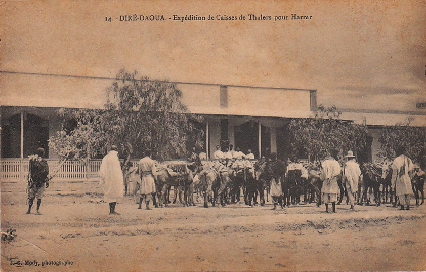 Postcard from circa 1908-1910 showing crates of Maria Theresa thalers being prepared for shipment by donkeys from Dire Dawa to nearby Harrar, capital of the Ethiopian province of the same name. The thalers, most likely had been shipped from Europe to Djibouti and thence by rail to Dire Dawa, the terminus of the Franco-Ethiopian Railway at the time.